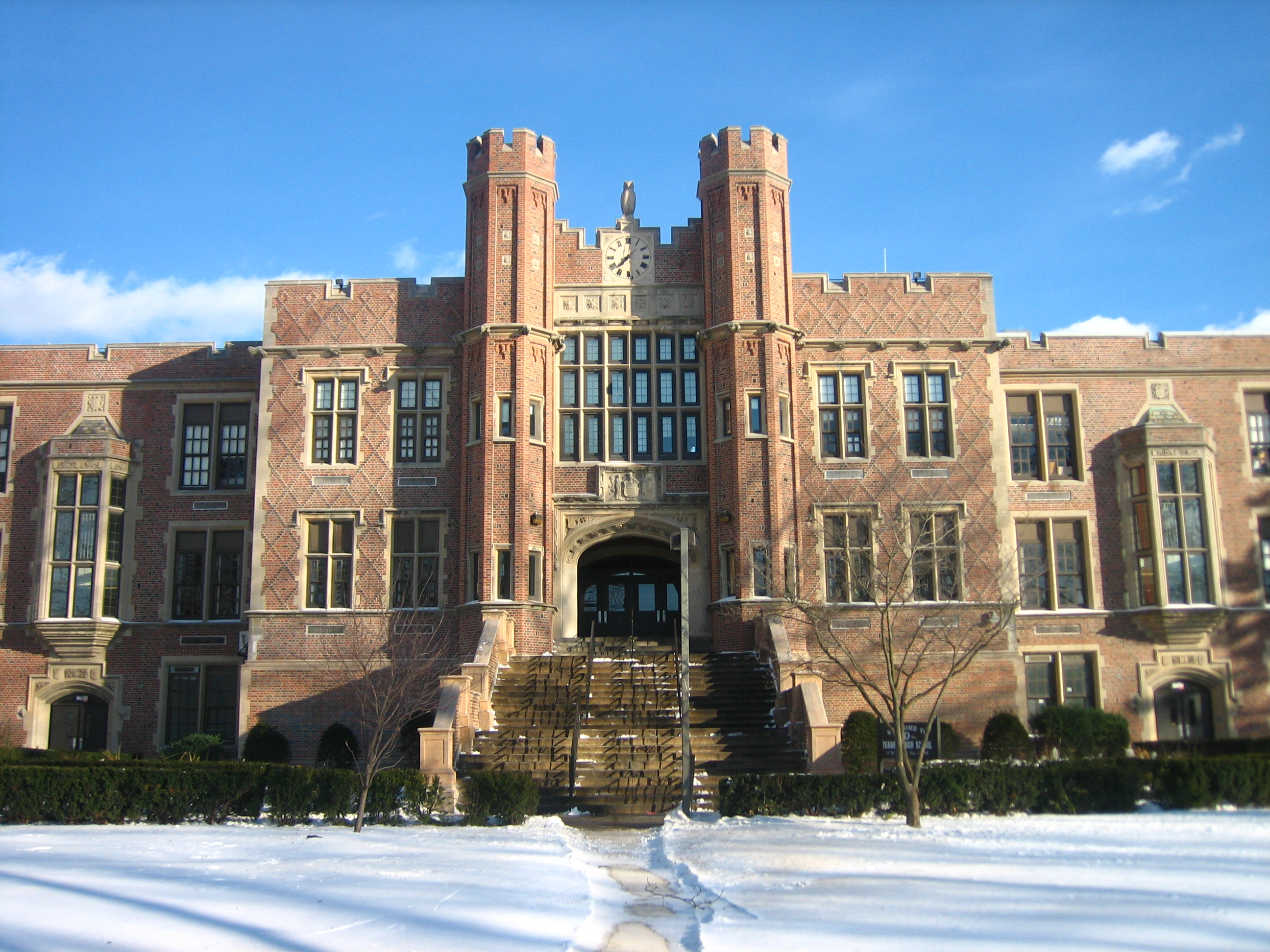 The main entrance to Teaneck High School